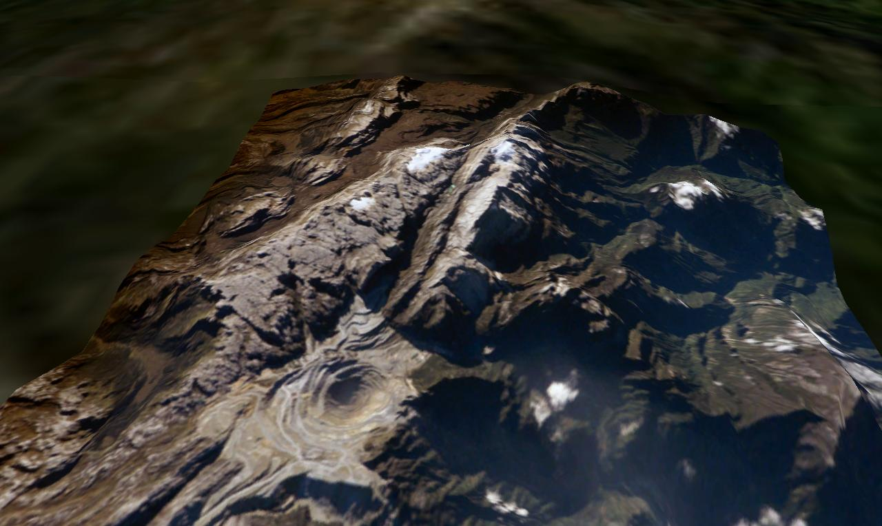 Puncak Jaya, West Papua, Indonesia. The Grasberg (Freeport) copper mine pit is in the foreground, and remnants of the Puncak Jaya glaciers behind. The summit of Puncak Jaya is at the far end of the central rib. Two remnants of the Northwall Firn are to the left of the peak. The Meren Glacier was in the valley between these and the peak, but disappeared sometime between 1994 and 2000[1]. The Carstenz Glacier is immediately right of the peak. (White patches further to the right are clouds, which appear to be on the terrain surface due to the image processing technique used.) At the current retreat rate, all these glaciers will be gone forever inside 10 years, making greater-Australia the first completely ice-free continent on the planet in 100,000 years. (Africa can't win. Kilimanjaro's ice is nearly gone, but there is still a fairly thick glacier left on Mount Kenya, and more in the Ruwenzori.) This is a June 2005 NASA astronaut photograph draped over the NASA World Wind SRTM90 DTM and viewed from a similar angle to the 1936 and 1972 USGS photos of this tropical glacier group. worldwind://goto/world=Earth&lat=-4.06986&lon=137.14256&alt=8039&dir=90.3&tilt=52.2 (Imagery mostly cloudy - try Geocover 1990.) Also see